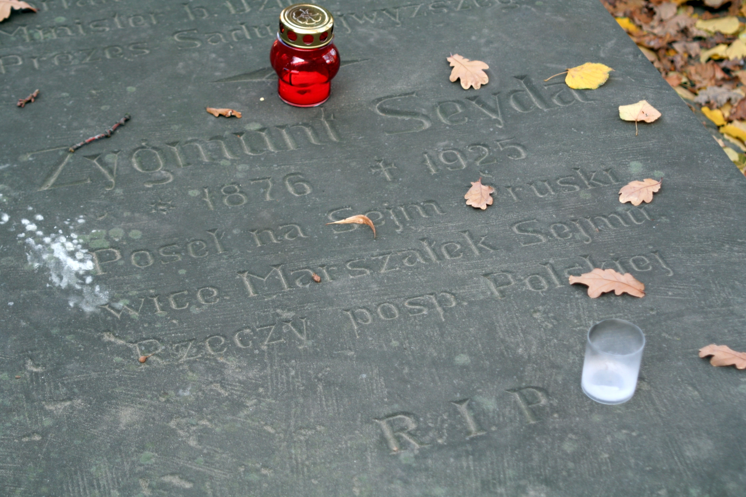 The grave of Zygmunt Seyda.